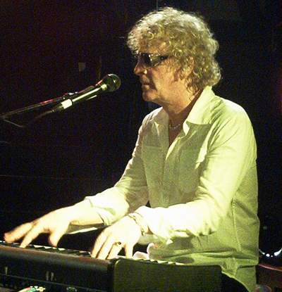 This is my own work, all rights released. Digital photograph of Ian Hunter during his concert in Fort Wayne, Indiana, USA, October 2004. Miluba 01:21, 30 March 2007 (UTC)miluba